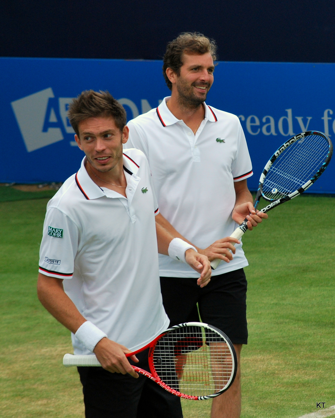 Nicolas Mahut & Julien Benneteau during their match with Kevin Anderson & Leander Paes at the Aegon Championships. The match was unfinished overnight. Mahut is used to that.